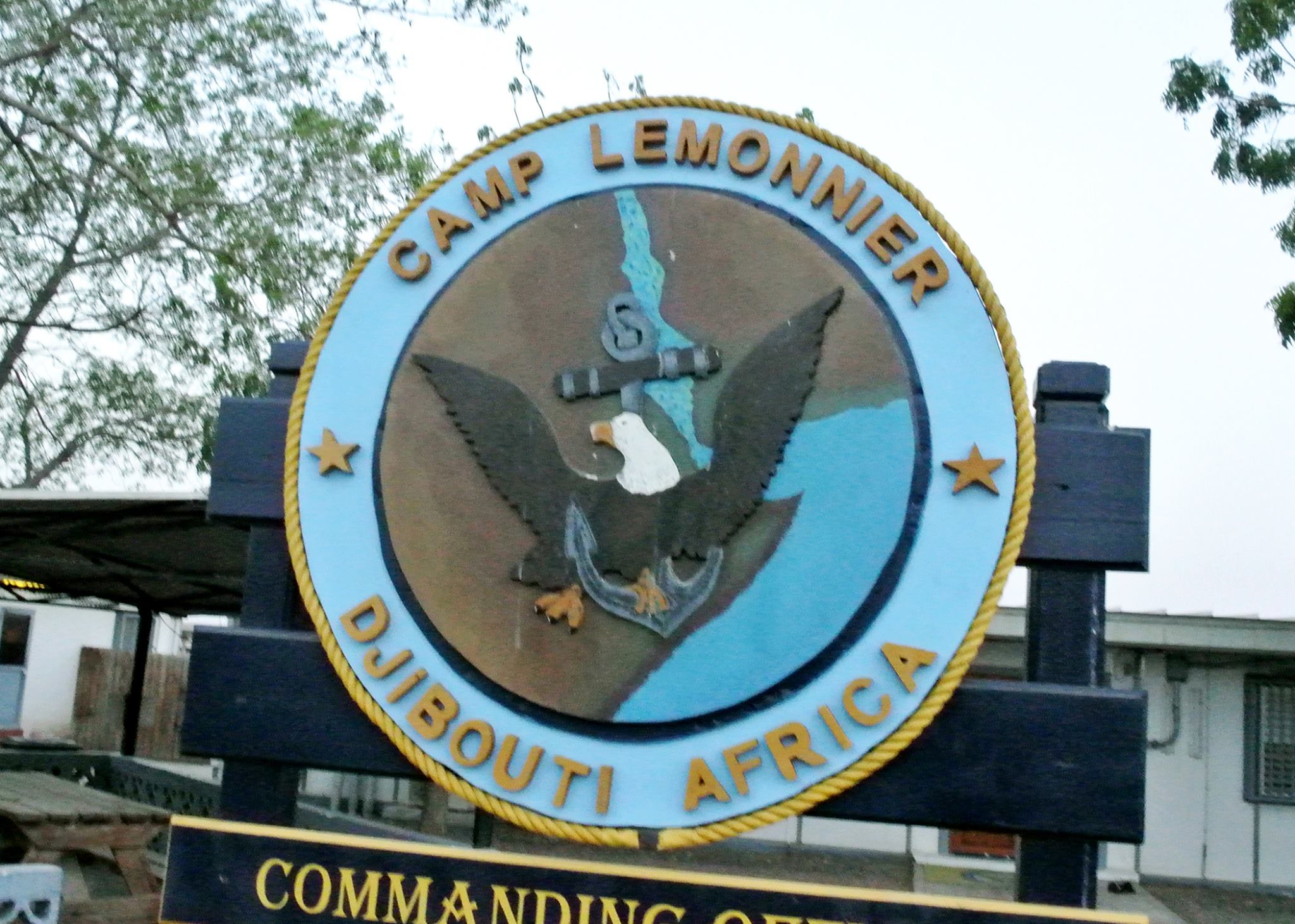 A building on Camp Lemonnier